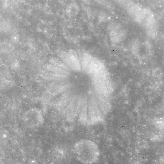 Bombelli crater, on the moon. Rotated so that north is at top.